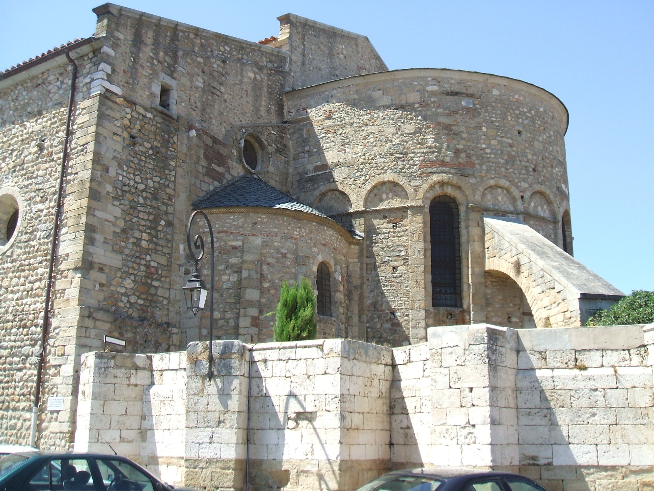 Elne Cathedral : chevet (XIth - XIIth century)